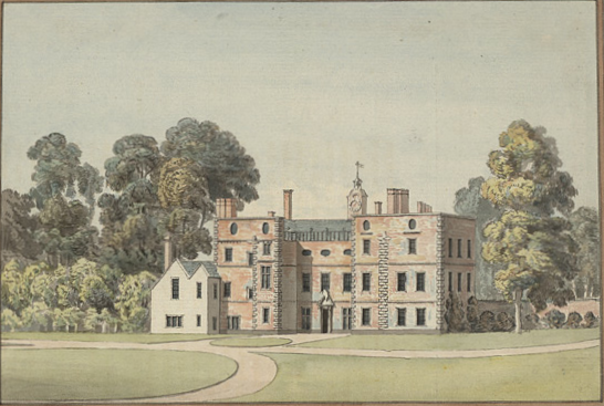 Bodrhyddan c1776